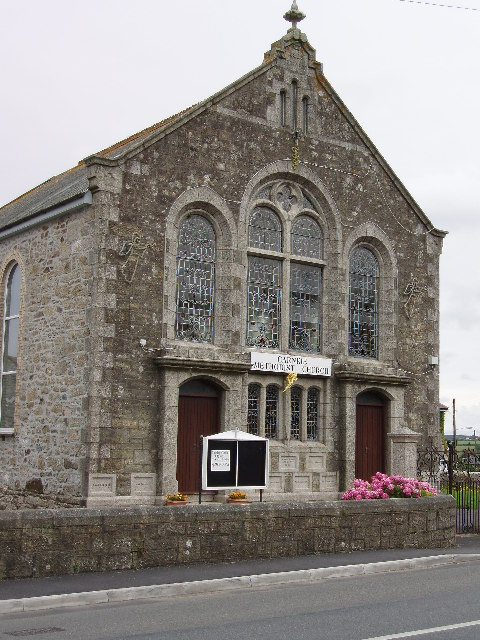 Carnkie Methodist Church. In the village of Carnkie just south of Carn Brea hill.